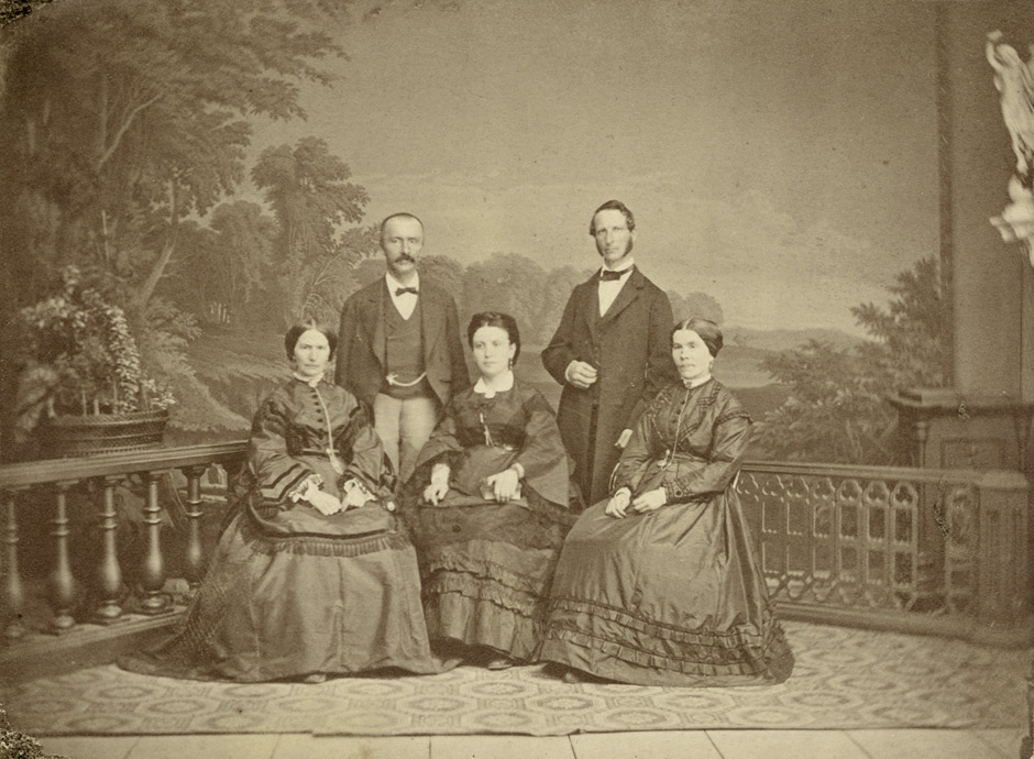 Family photo with Heinrich and Sophia Schliemann. 1871. Albumen print. 10,4 x 14 cm.